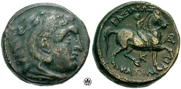 Macedon, Kings of. Kassander. 316-297 BC. Struck 306-297 BC. Head of Herakles right, wearing lion's skin headdress / ΒΑΣΙΛΕΩΣ ΚΑΣΣΑΝΔΡΟΥ, horseman right, monograms to right and below